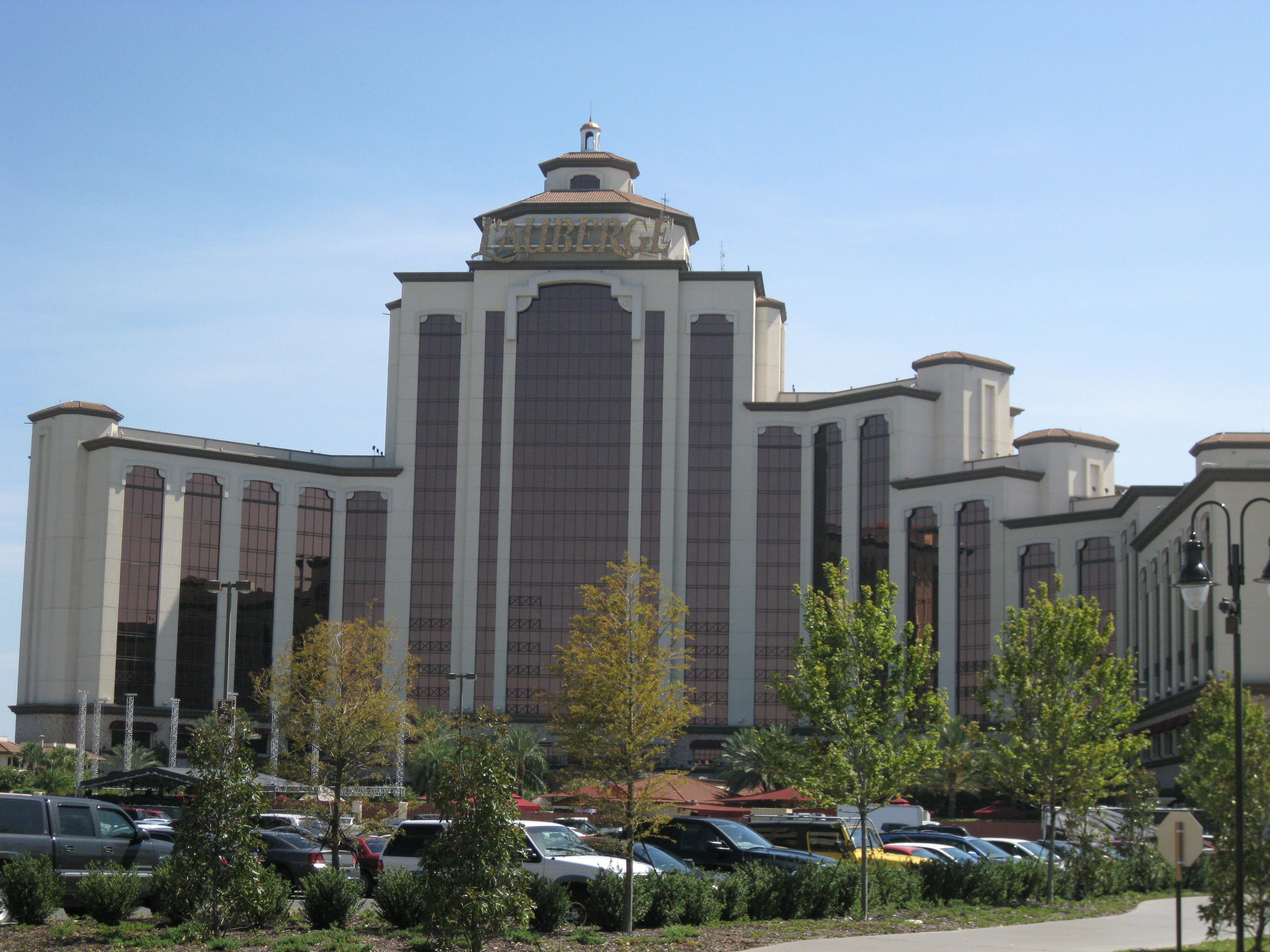 L'Auberge du Lac Casino